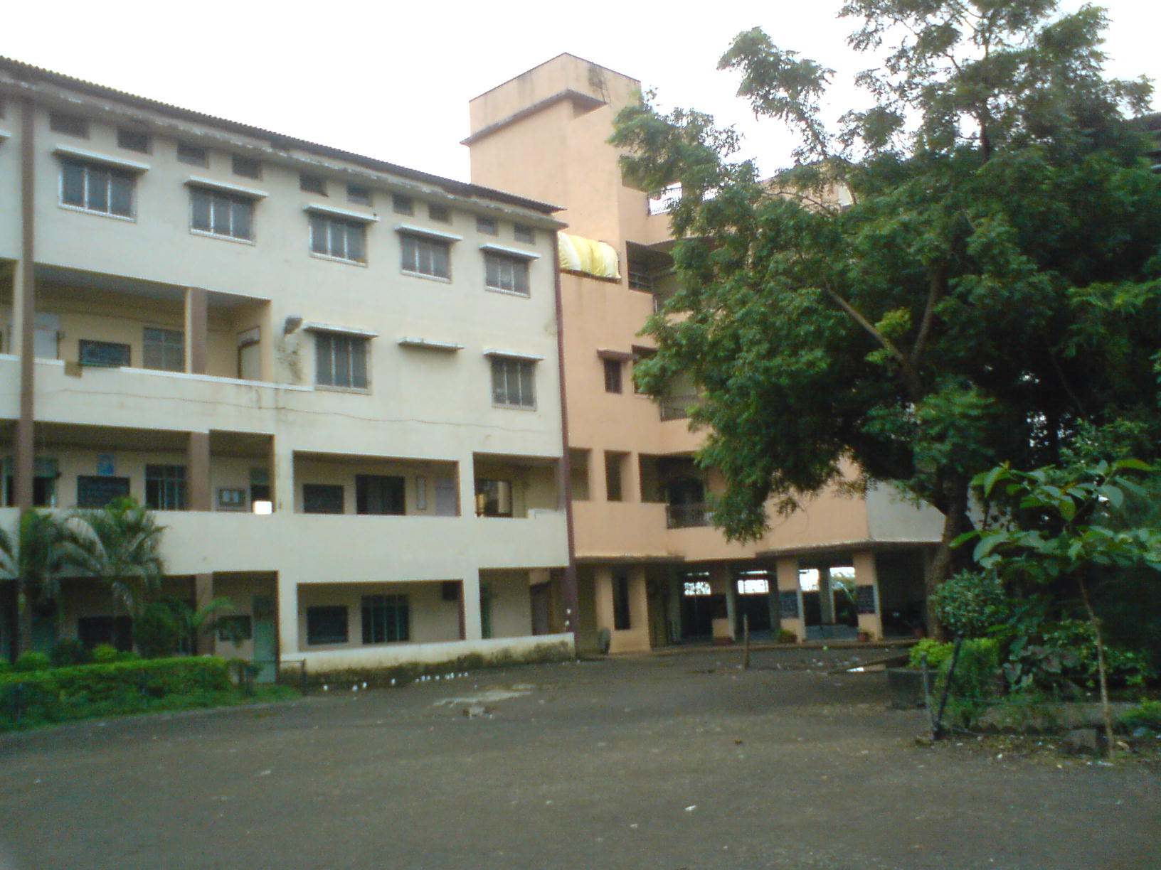 new wing